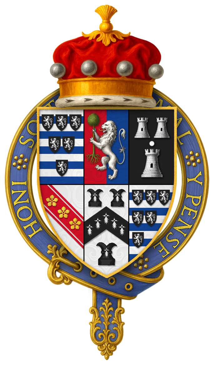 Quartered arms of Sir William Cecil, 1st Baron Burghley, KG These quarterings may be seen in the 16th century portrait of Cecil riding a mule, as well as on 16th century leather bindings in the University of Toronto's British Armorial Bindings collection.